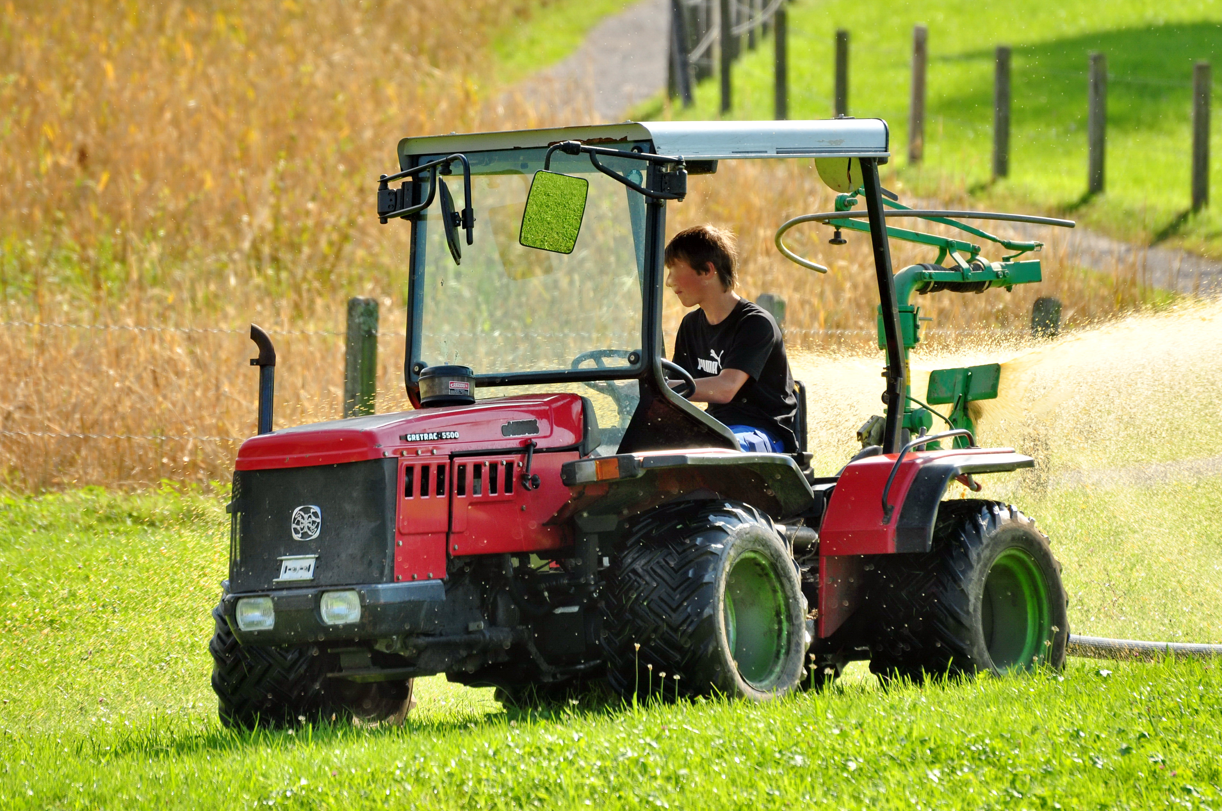 Spreading liquid manure with an Antonio Carraro Tigretrac 5500 tractor (a 1990s' model), Ufenau island on Zürichsee (Lake Zürich) in Switzerland